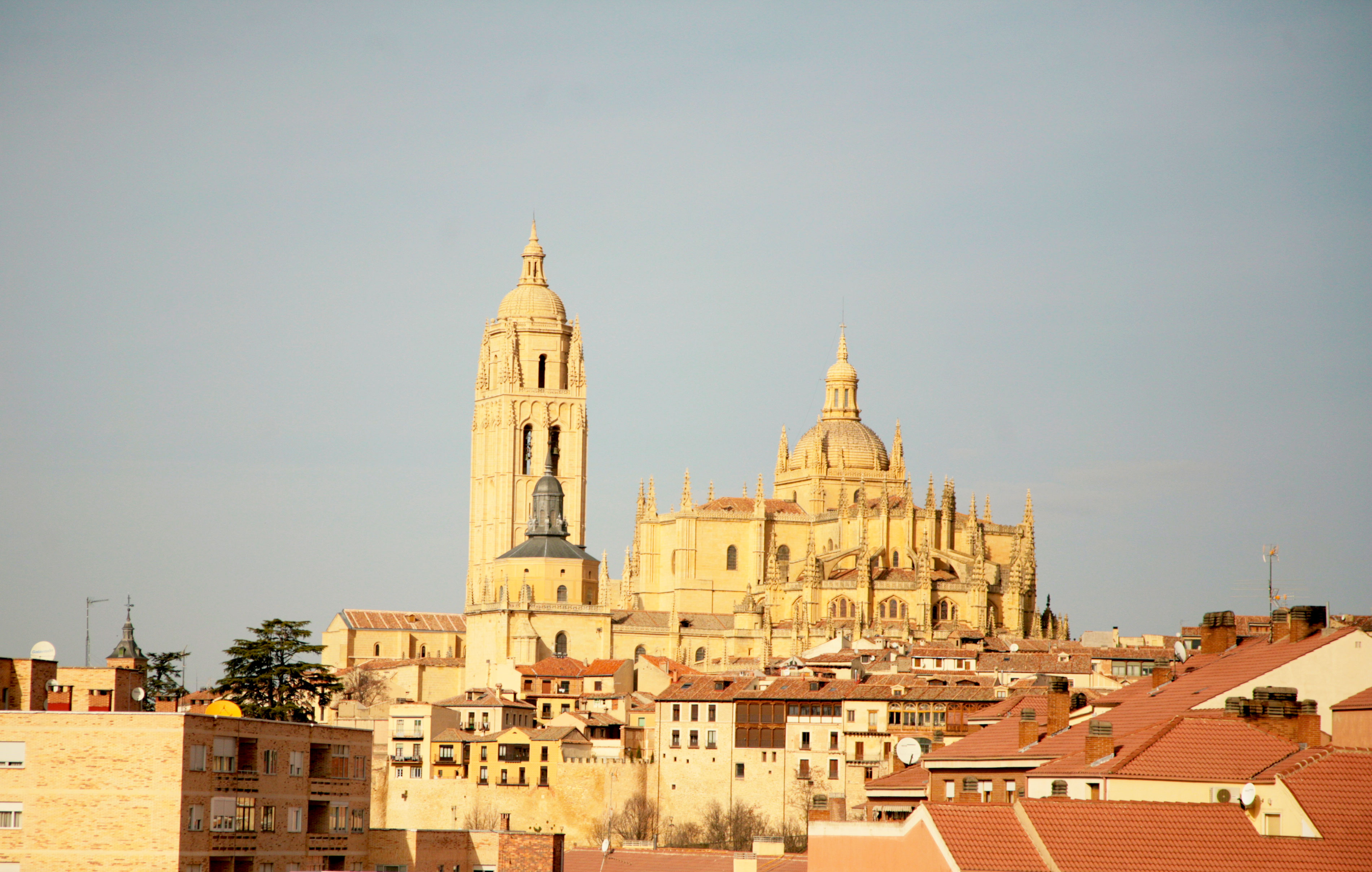 Overall view of the Cathedral of Segovia, Castilla y Léon, Spain and the surrounding Jewish Quarter of the city (la Judería)